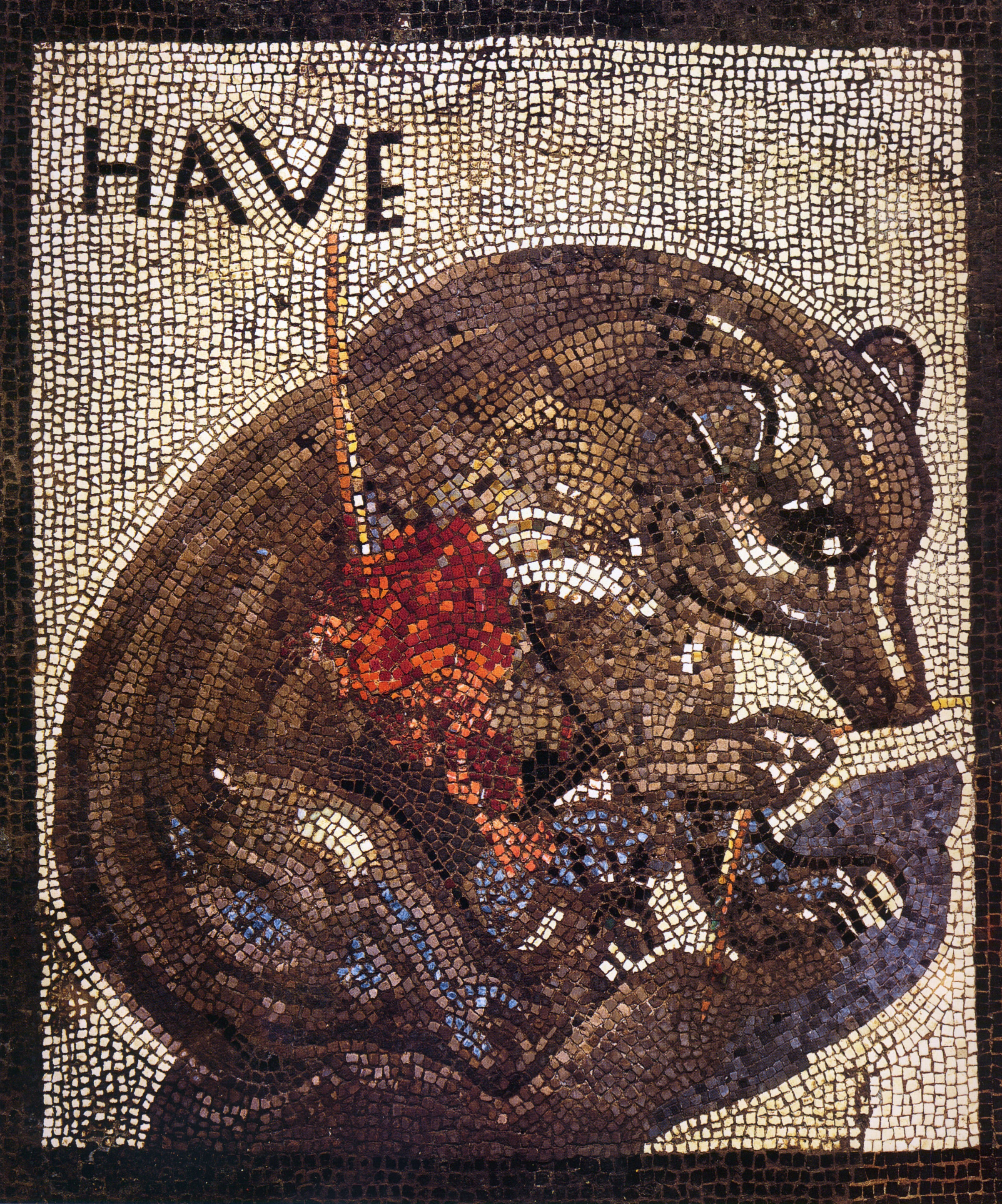 Bear wounded by a spear. Text above is the welcome HAVE. Roman mosaic from the House of the Bear (VII 2, 45) in Pompeii.